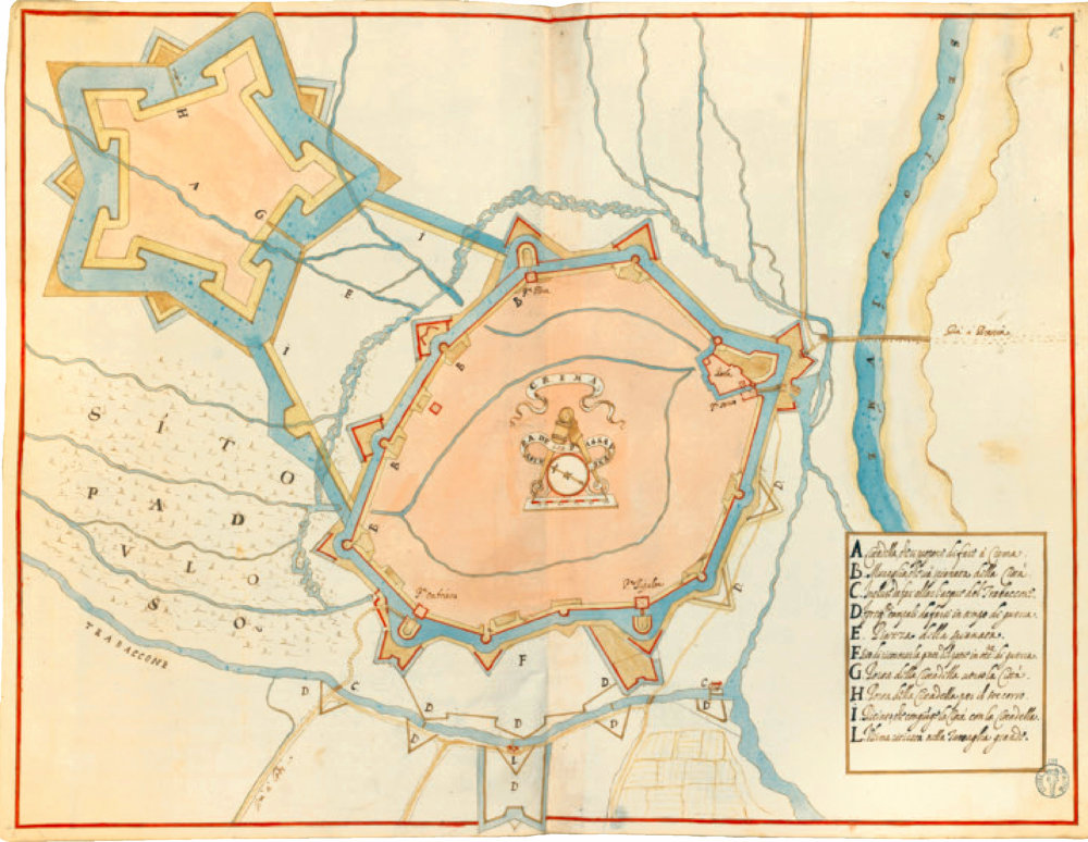 Historical Map of Crema, 1630, pen drawing and sepia ink, with watercolor paintings, on paper, wall plant with the never-built idea of building a pentagonal fortress